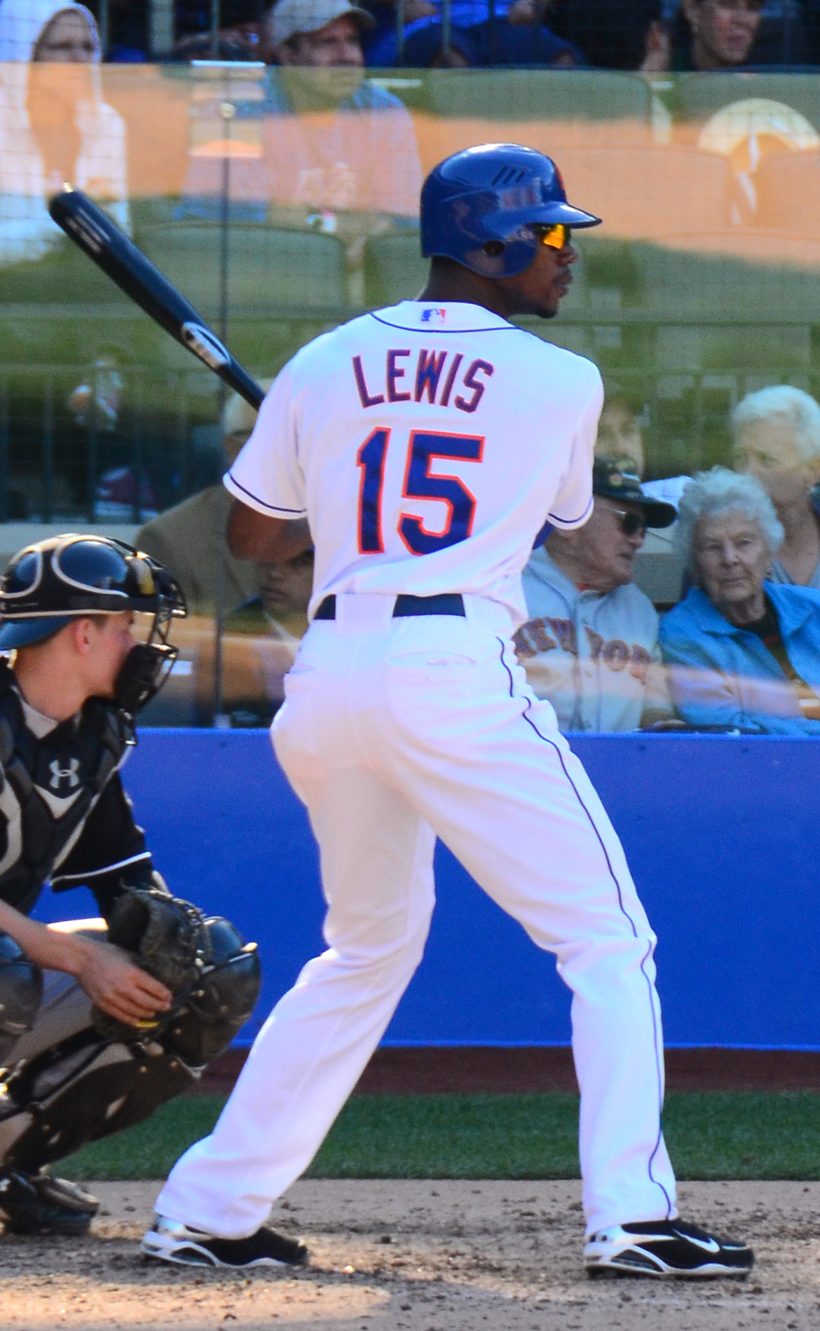 Fred Lewis